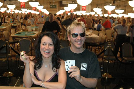 Jennifer Tilly and Phil Laak at the 2005 World Series of Poker - Rio Las Vegas.